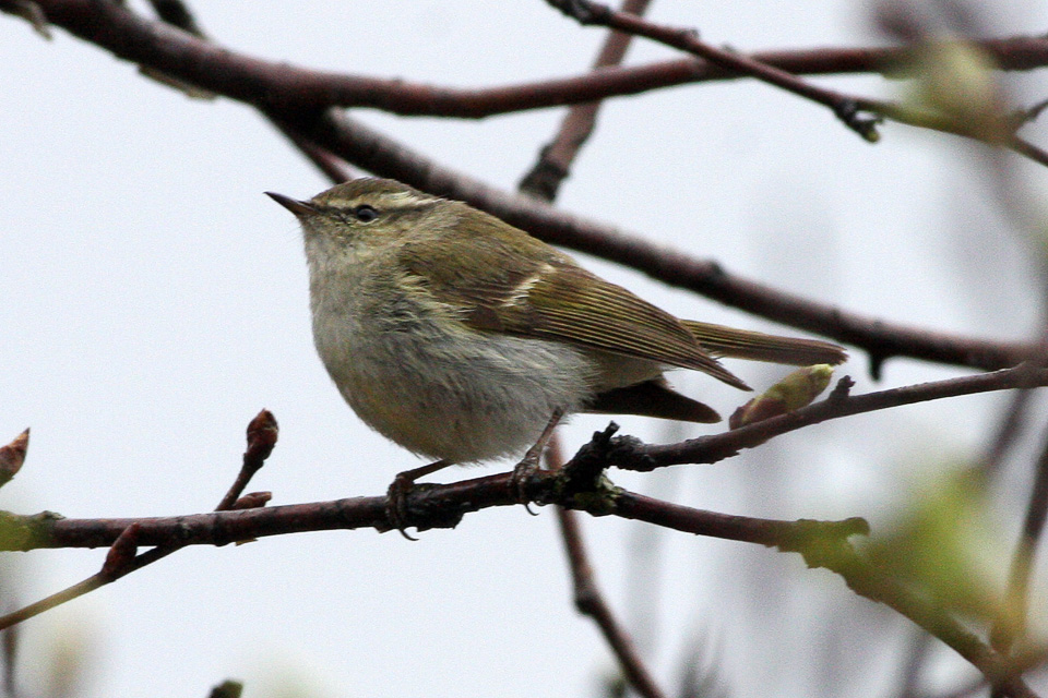 Hume's Leaf-warbler (Phylloscopus humei) Taibai Shan, Shaanxi